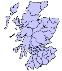 Map showing, Cumbernauld and Kilsyth District (1975)